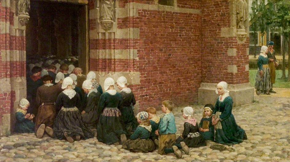 Hoogmis in een dorp aan de Zuiderzee